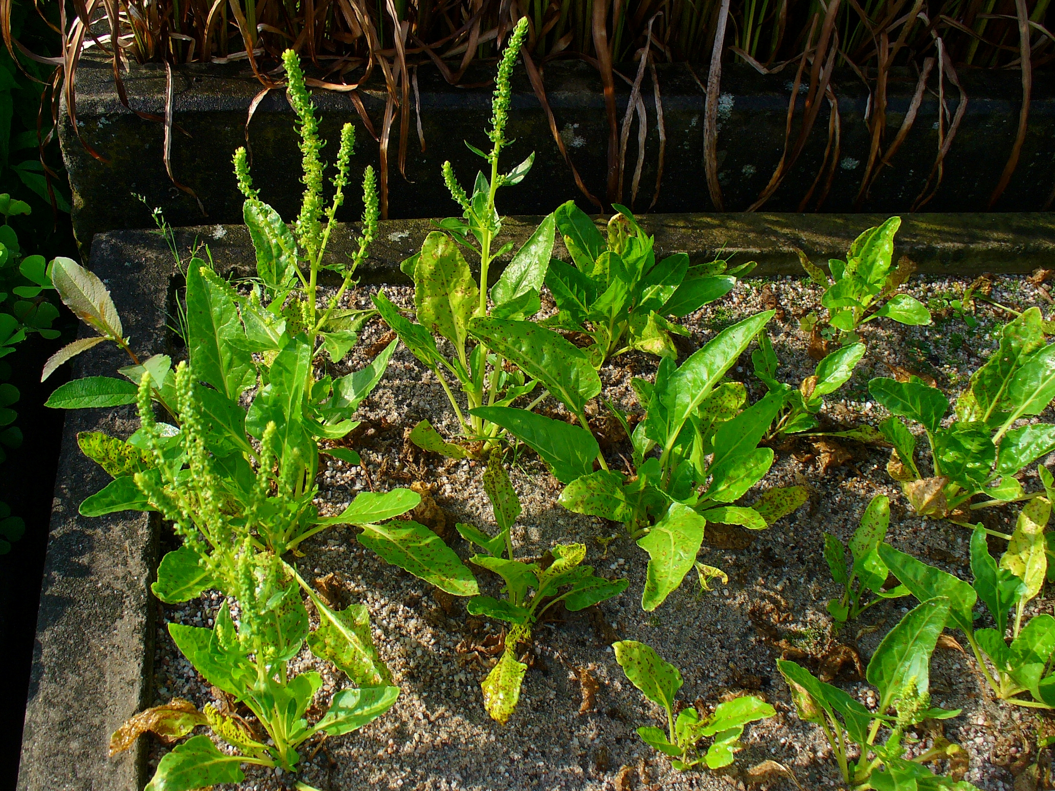 Beta vulgaris ssp. maritima, Sea Beet, habitus; Botanical Garden KIT, Karlsruhe, Germany.